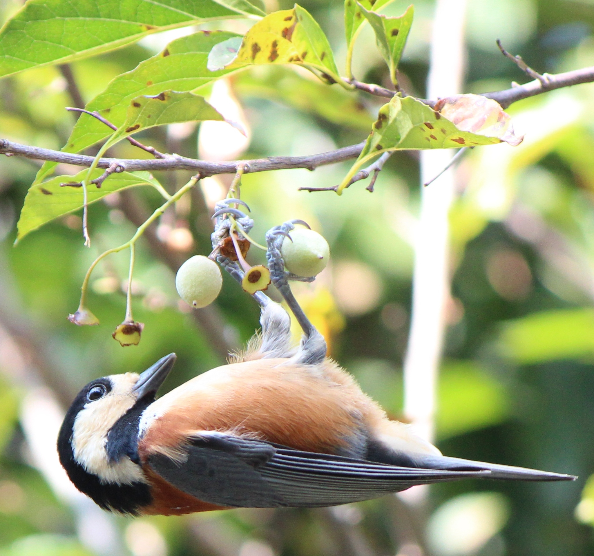 Poecile varius varius (Varied tit), eating fruits of Styrax japonica(Japanese snowbell) in Japan.